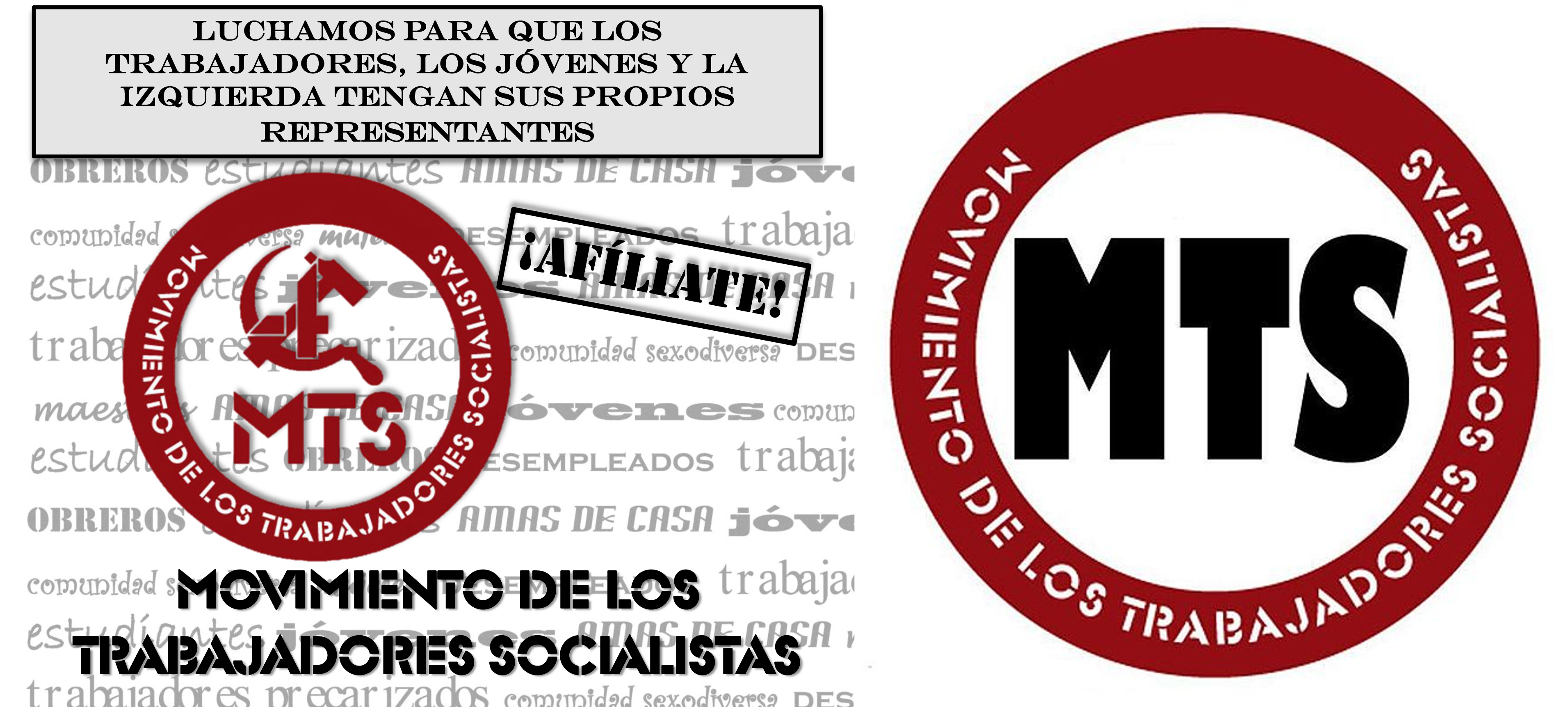 mts logo